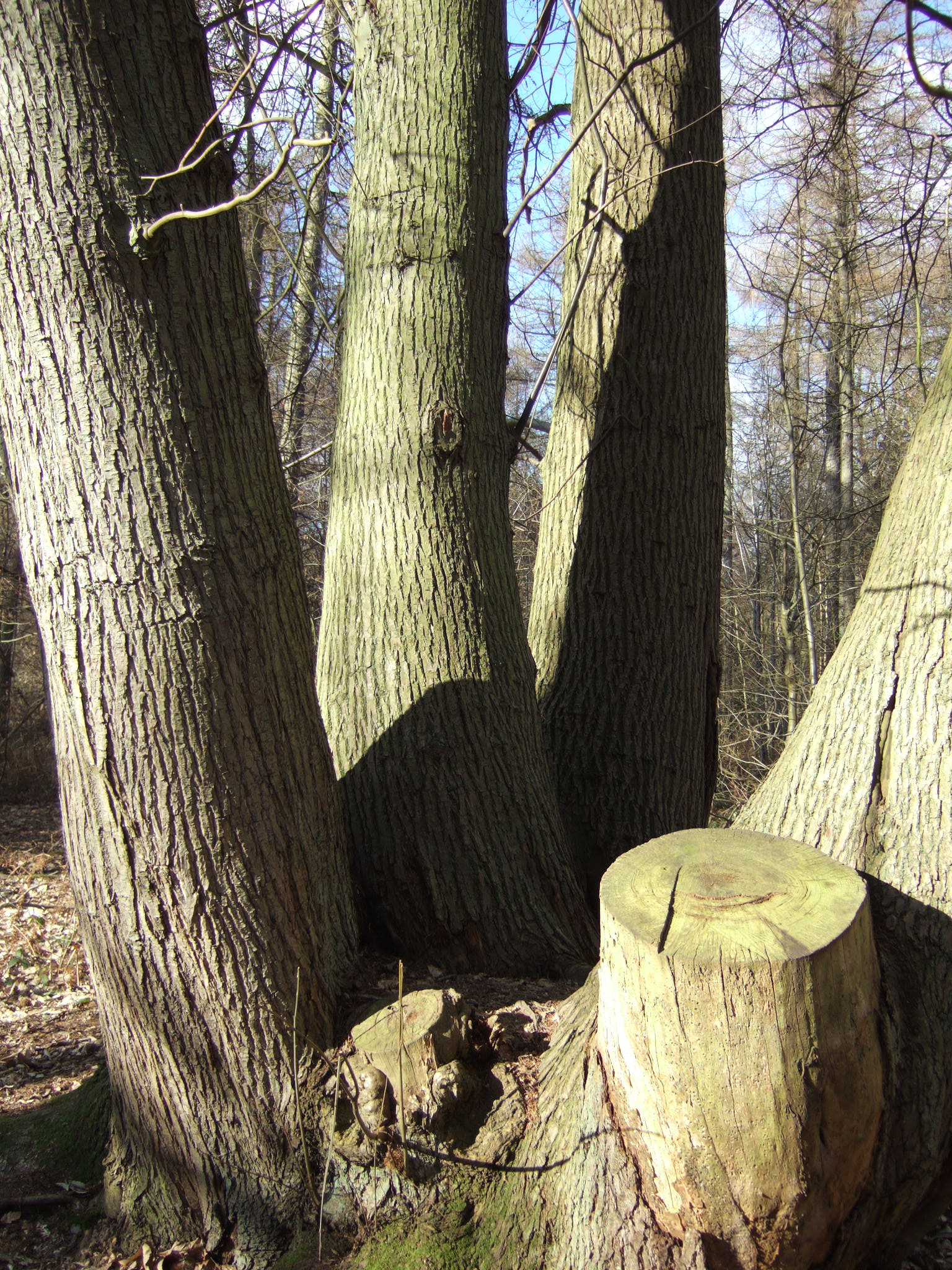 Ancient coppice of a sweet chestnut, Banstead Woods, Surrey